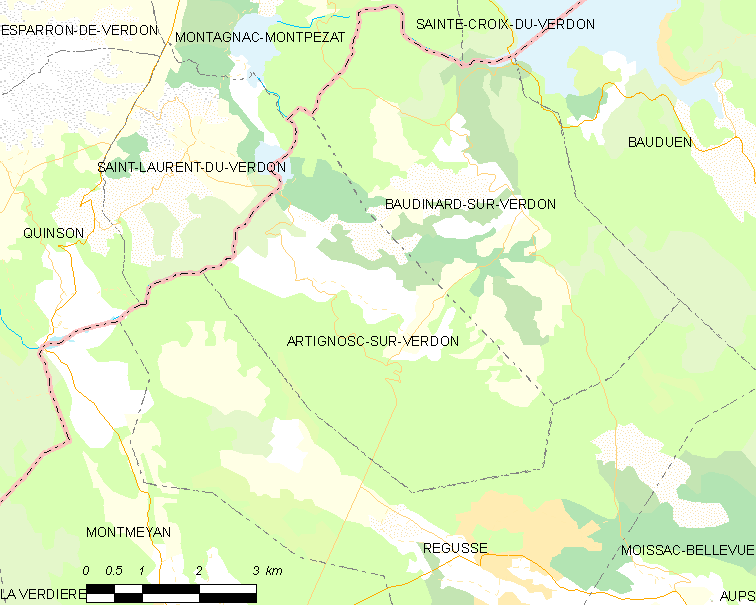 Map of French municipality Artignosc-sur-Verdon